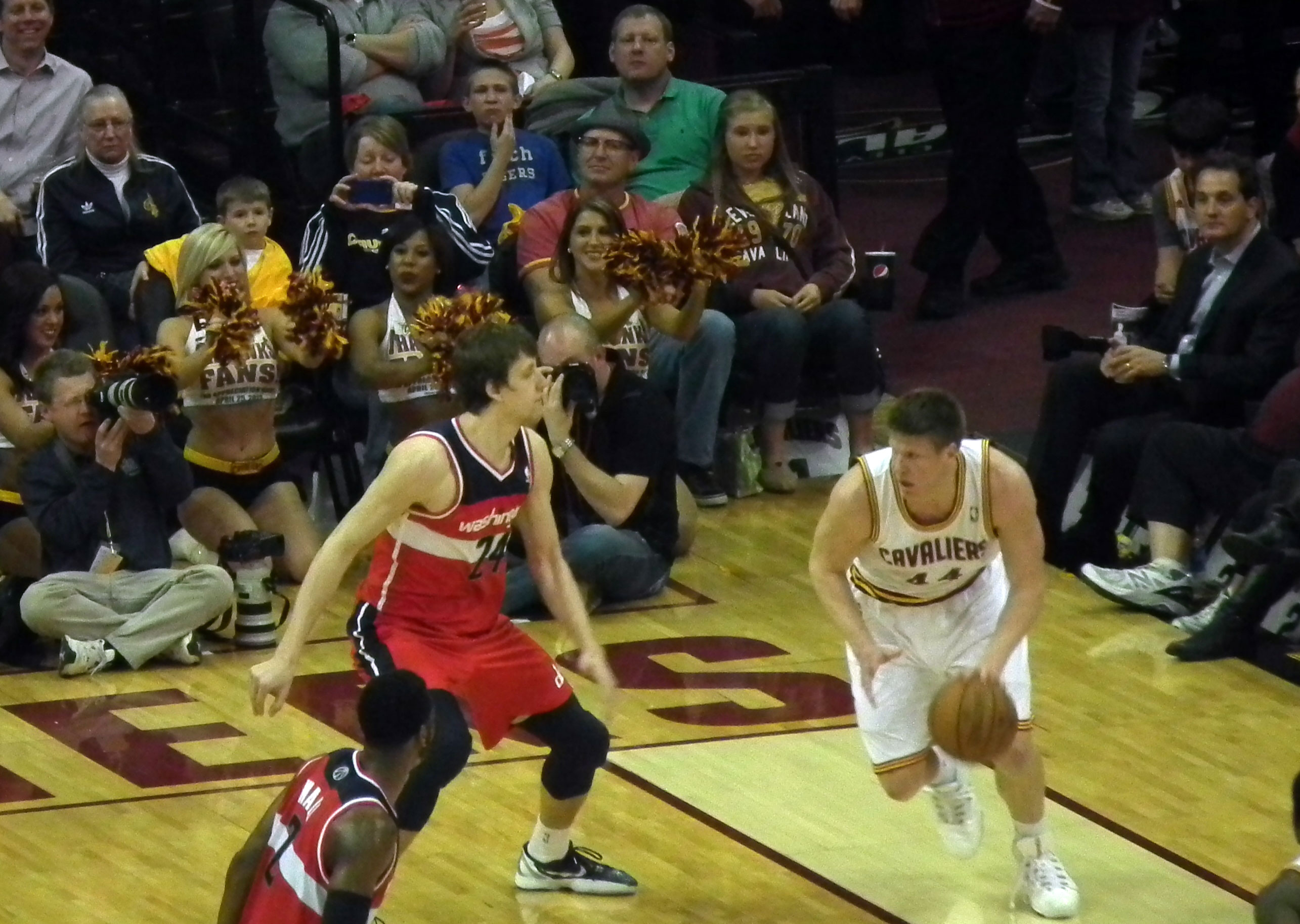 Luke Harongody of the Cleveland Cavaliers with the ball, Jan Vesely of the Washington WIzards defending.